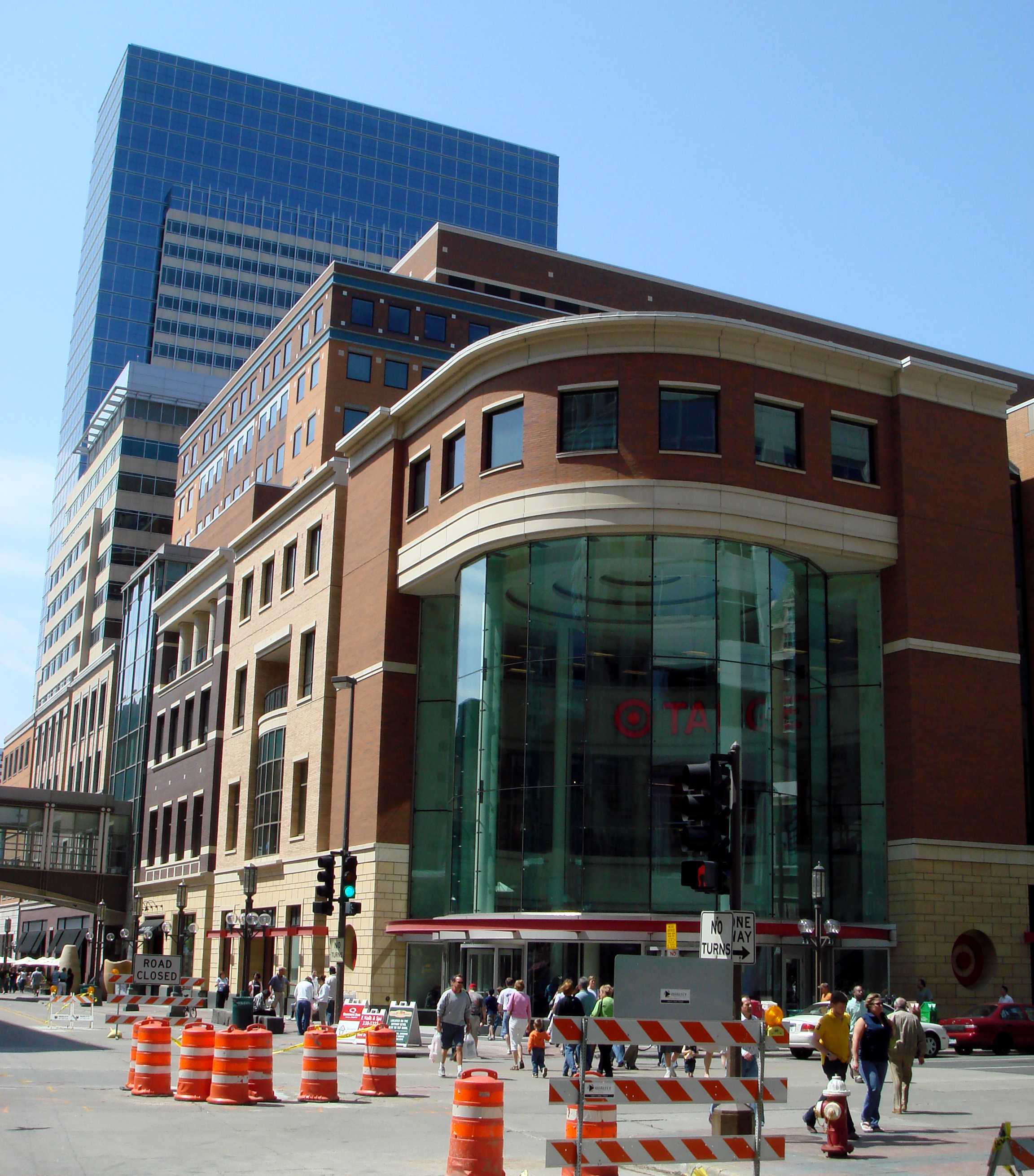 The downtown Minneapolis Target Corporation store with its corporate headquarters tower in the background, Minneapolis, Minnesota